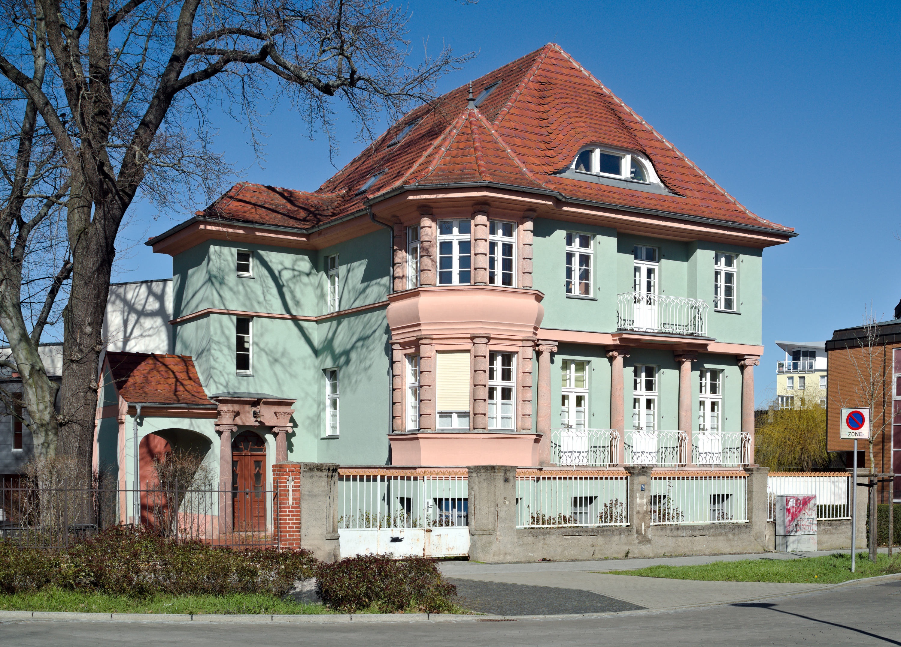 Cultural heritage monument Inselstraße 9 in Cottbus-Mitte.